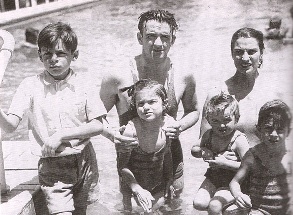 Che Guevara's famili, 1936